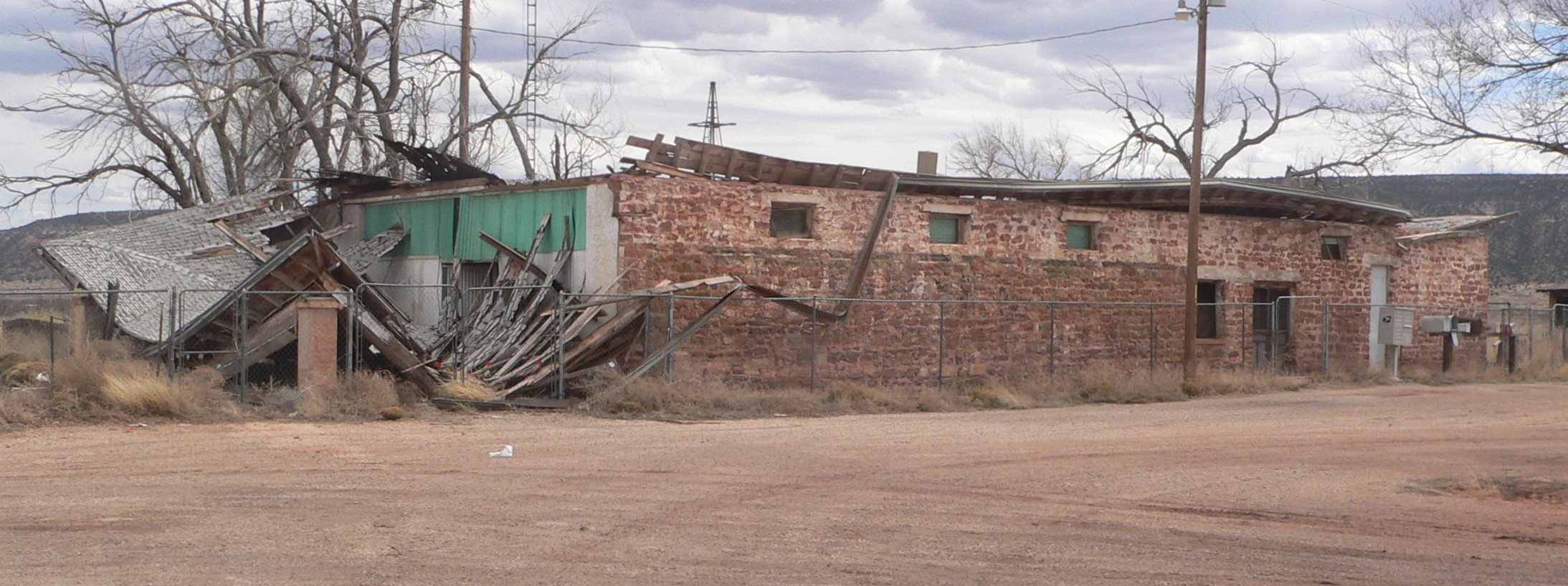 Richardson store, located on south side of Interstate 40 frontage road east of freeway exit in Montoya, New Mexico; seen from the northwest.